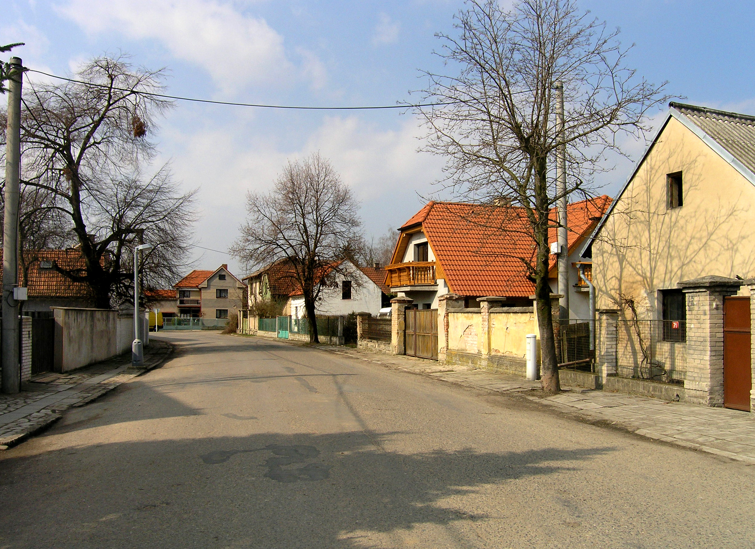 North part of Křenek village, Czech Republic